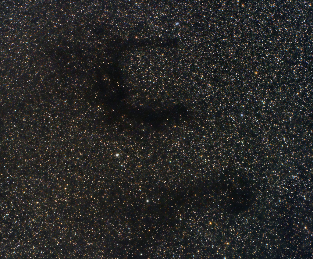 E or Barnard's E Nebula - B142 and B143